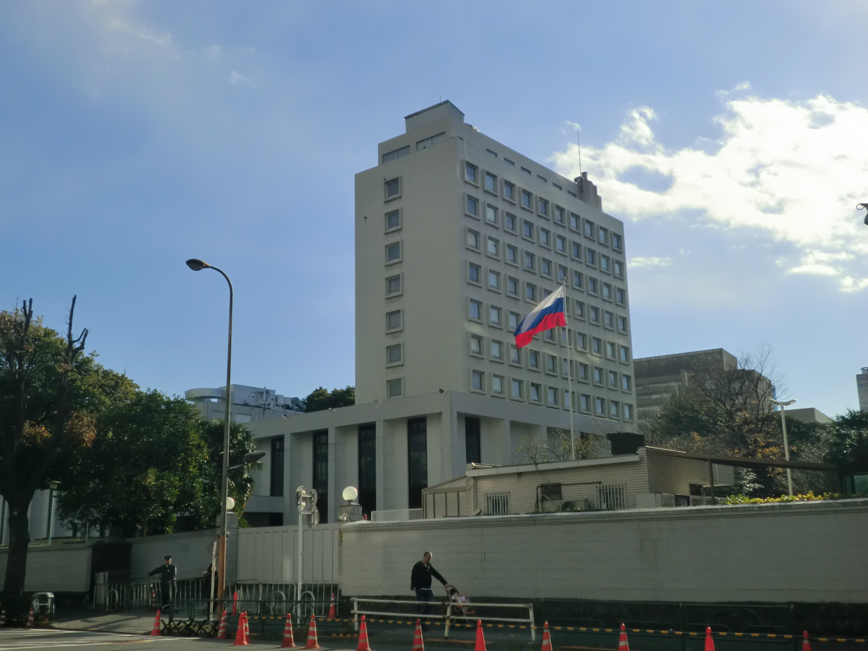 Embassy of Russian Federation in Japan located in Azabu-dai,Minato ward,Tokyo.